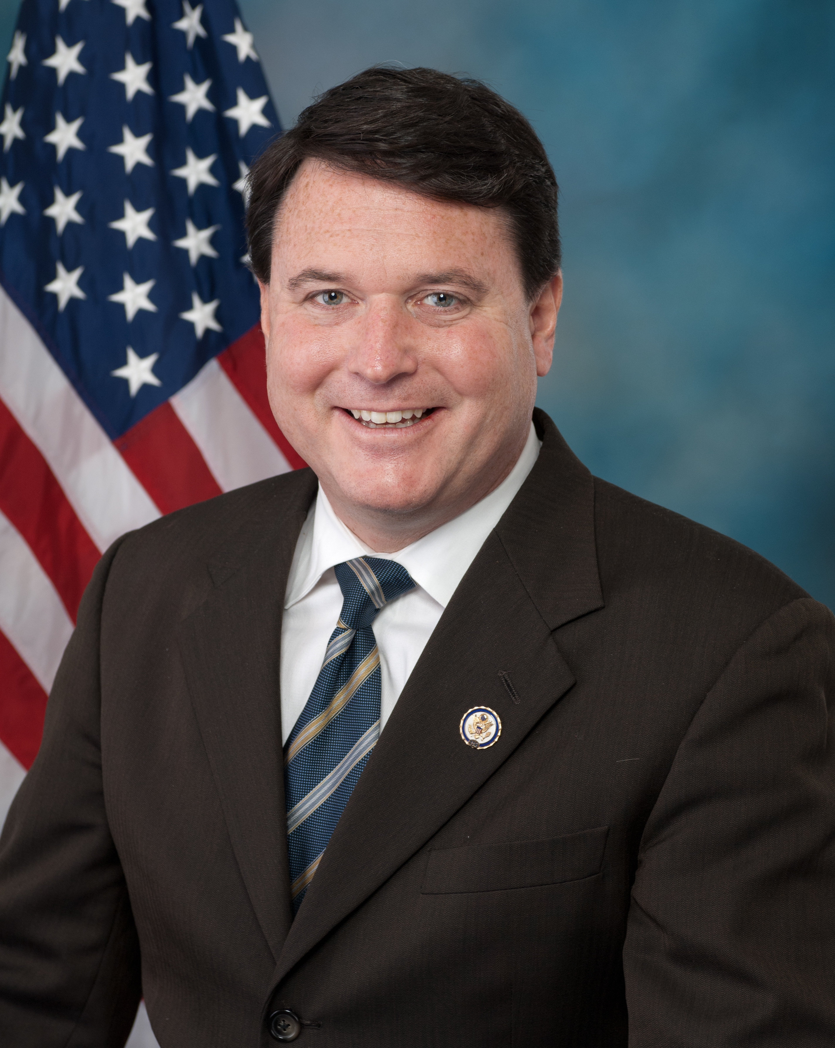 Official portrait of US Rep Todd Rokita